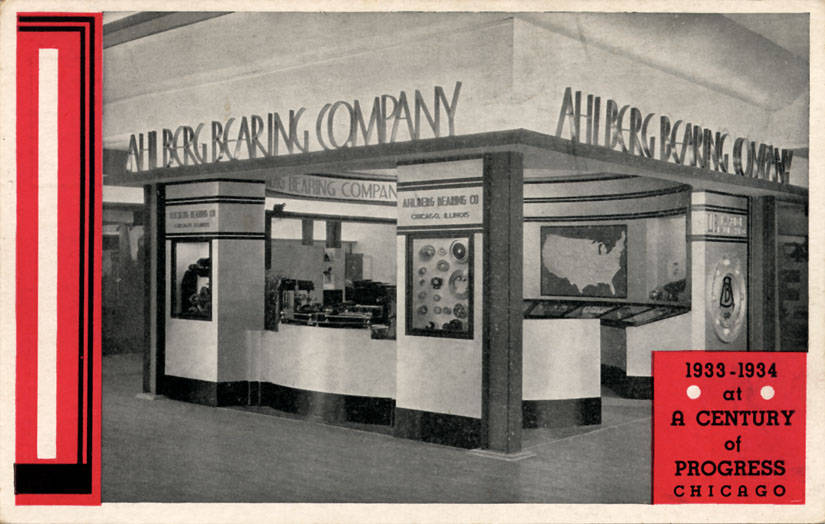 1933-1934 At A Century Of Progress Chicago